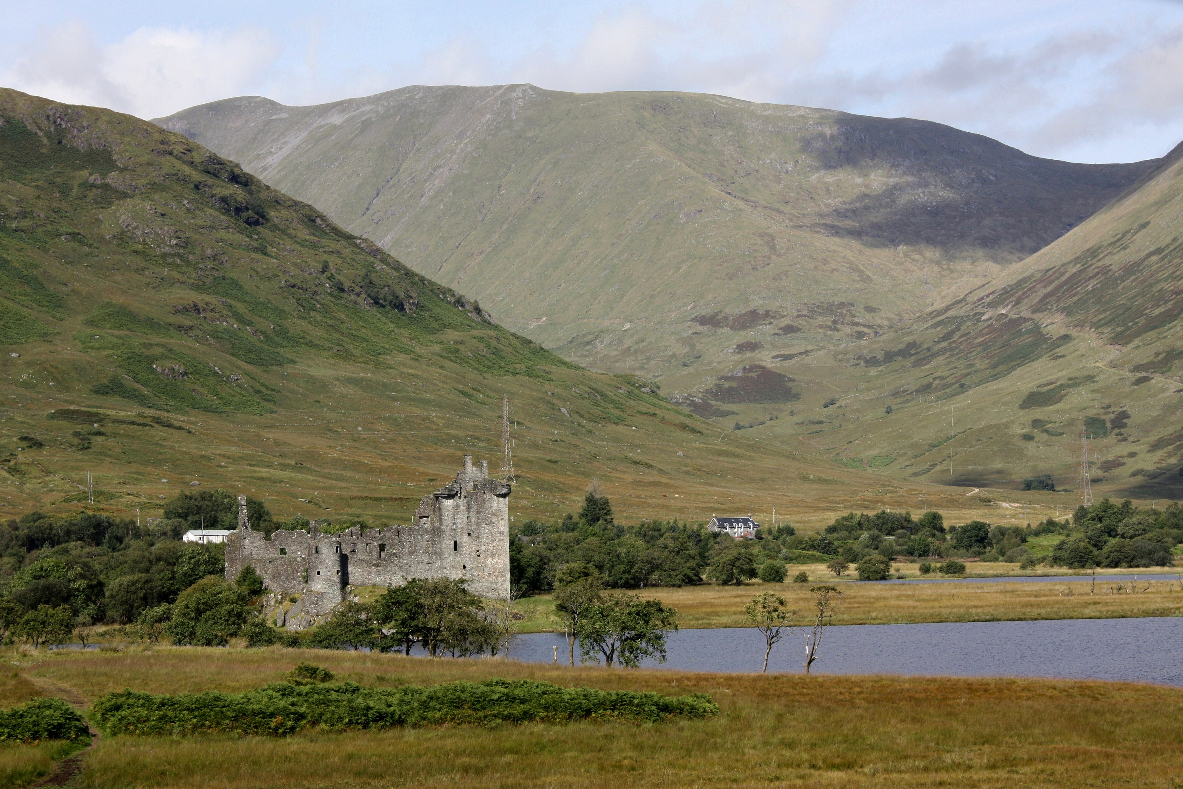 Kilchurn Castle, Argyll and Bute, Scotland.